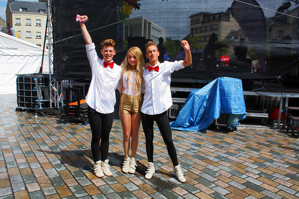 Kim Petras (center) in GayMat 2012.